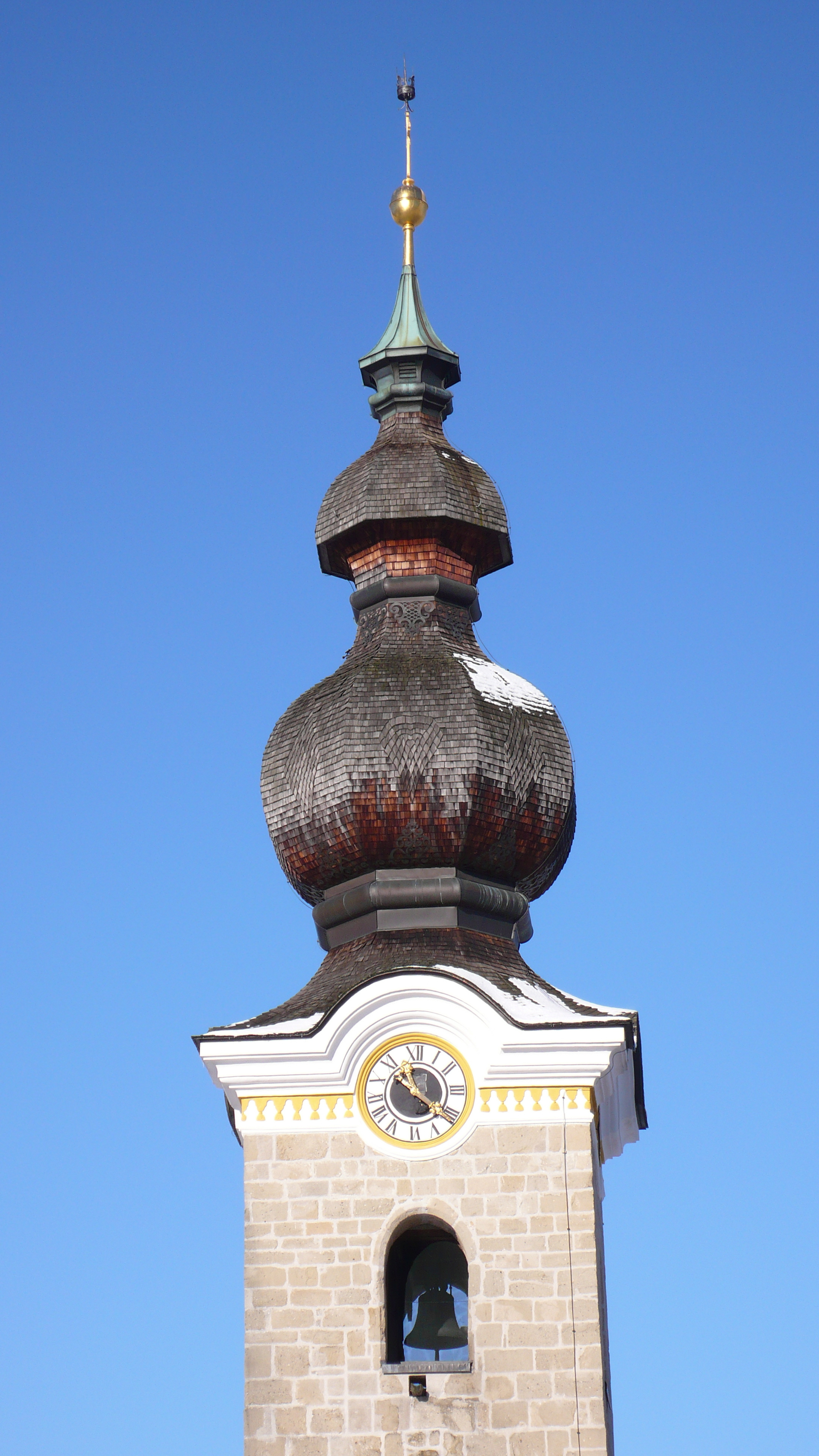 Tower of St. Valentin Marzoll